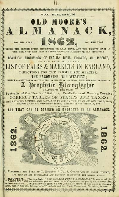 Old Moore's Almanack from 1862